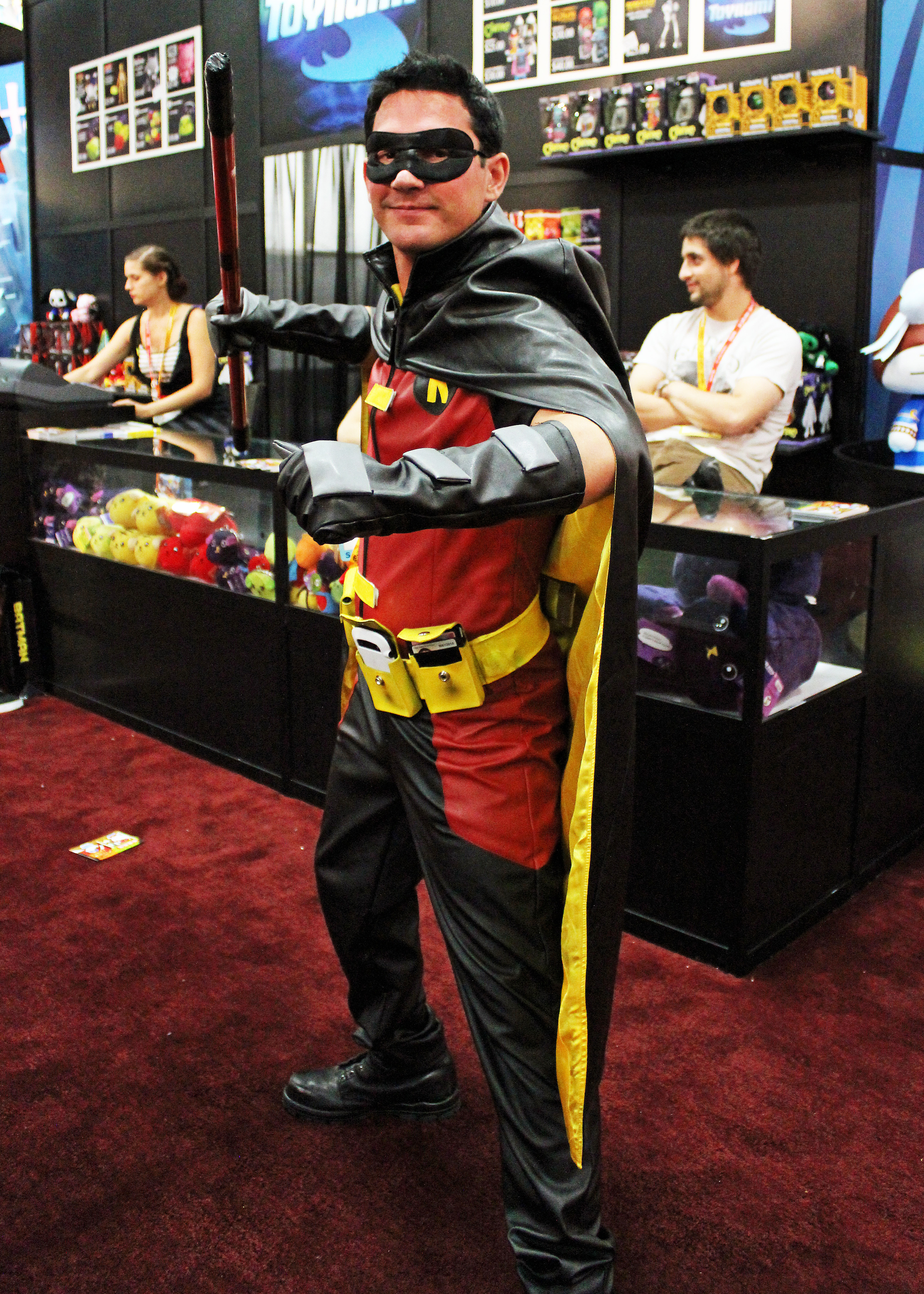 A cosplayer as Robin at San Diego Comic-Con 2012.